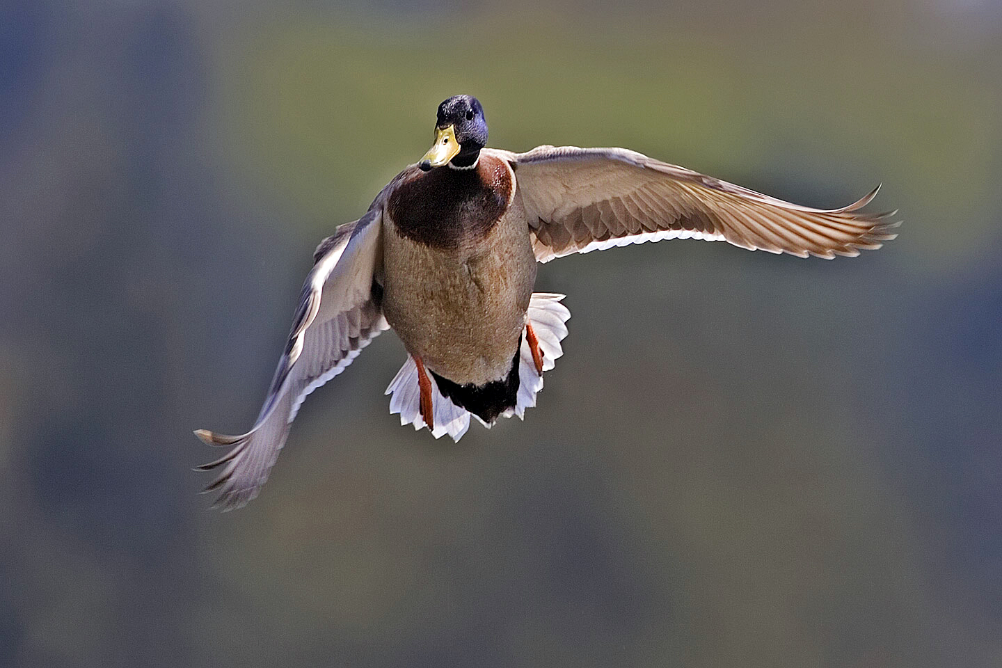 Mallard (Male), Burnaby Lake Regional Park (Piper Spit), Burnaby, British Columbia